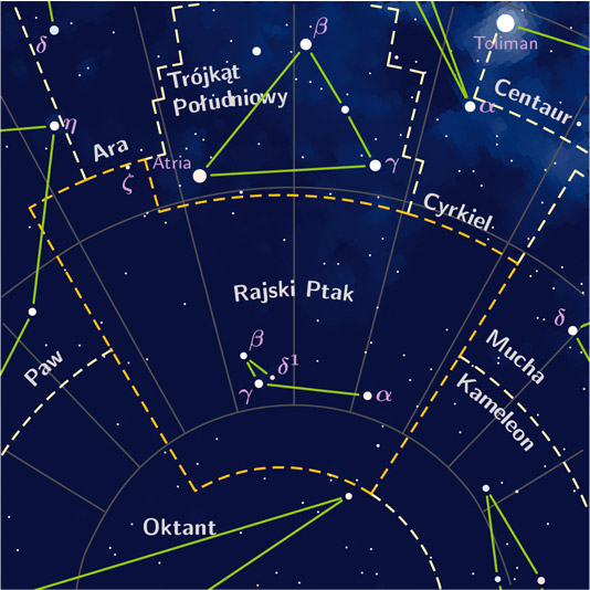 Apus constellation. Legenda[edit] Gwiazdy zostały oznaczone jasnymi kółkami, których promień powiązany jest z ich obserwowaną jasnością, a kolor pokazuje barwę światła danej gwiazdy. Jasnoszarym tekstem oznaczono polskojęzyczne nazwy gwiazdozbiorów bądź, w przypadku braku miejsca, skróty ich nazw łacińskich. Purpurowo opisane zostały nazwy lub oznaczenia gwiazd oraz innych obiektów. Białe okręgi (lub elipsy) pokazują rozmiary niektórych obiektów (np. galaktyk lub gromad otwartych) Granice gwiazdozbiorów zaznaczone są przerywaną, jasnożółtą linią, a granice aktualnie prezentowanego gwiazdozbioru - linią jasnopomarańczową. Linie łączące poszczególne gwiazdy w obrębie gwiazdozbiorów są koloru zielonego. Drogę Mleczną ukazano jako zmiany koloru tła od ciemnego granatu do jasnego błękitu. Czerwoną linią przerywaną oznaczona jest ekliptyka. Białym tekstem opisane zostały większe powierzchniowo obiekty takie, jak Obłoki Magellana, czy gromada galaktyk w Pannie. Linie ukazujące kształty gwiazdozbiorów zostały dobrane arbitralnie, jednak z akcentem na spójność z dostępnymi źródłami polskojęzycznymi, oraz, w niektórych przypadkach, tak, by bardziej odpowiadały nazwie gwiazdozbioru. Wyznaczone zostały one na podstawie następujących źródeł: książki "Niebo na dłoni" Eduarda Pitticha i Dusana Kalmancoka, książki "Nasze gwiazdozbiory" Josipa Kleczka, obrotowej mapy nieba opracowanej przez PTMA Kraków oraz programów SkyGlobe i Celestia.